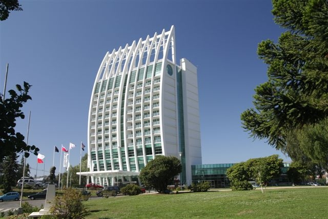 Casino in Valdivia.